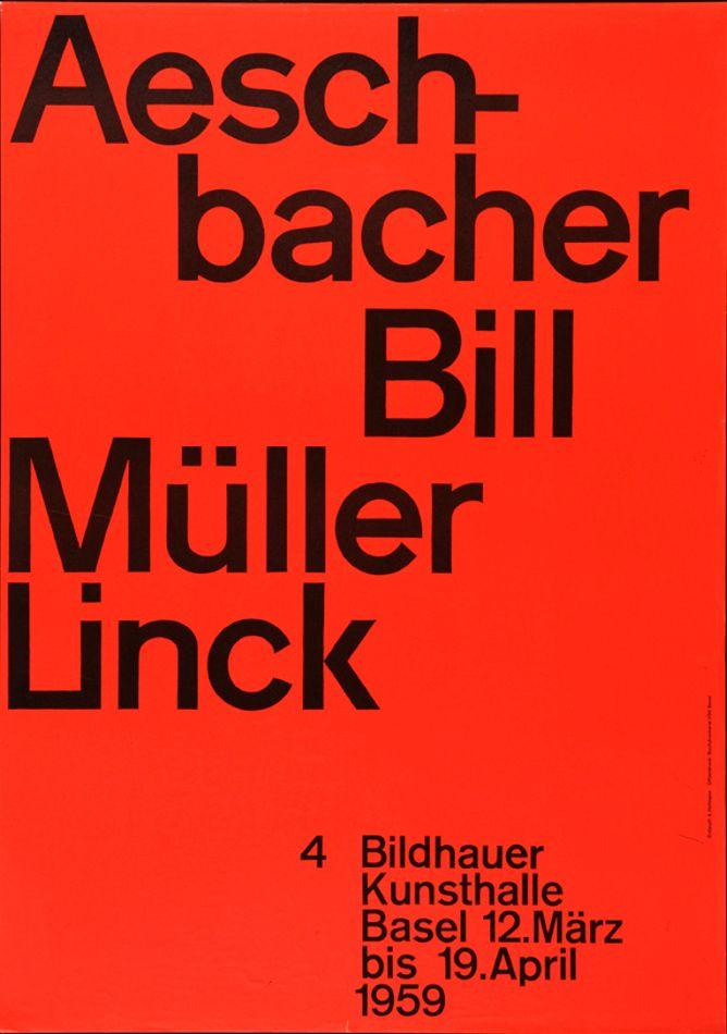 Poster for a 1959 exhibition of artworks by four swiss sculptors: Hans Aeschbacher, Max Bill, Walter Linck, Robert Müller. Poster design by Armin Hofmann.